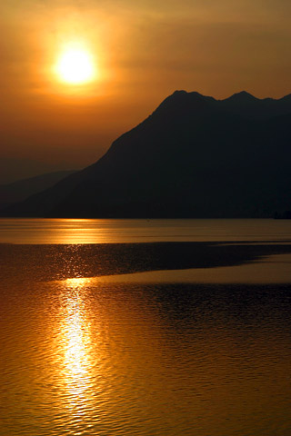 Lake Maggiore, sunset